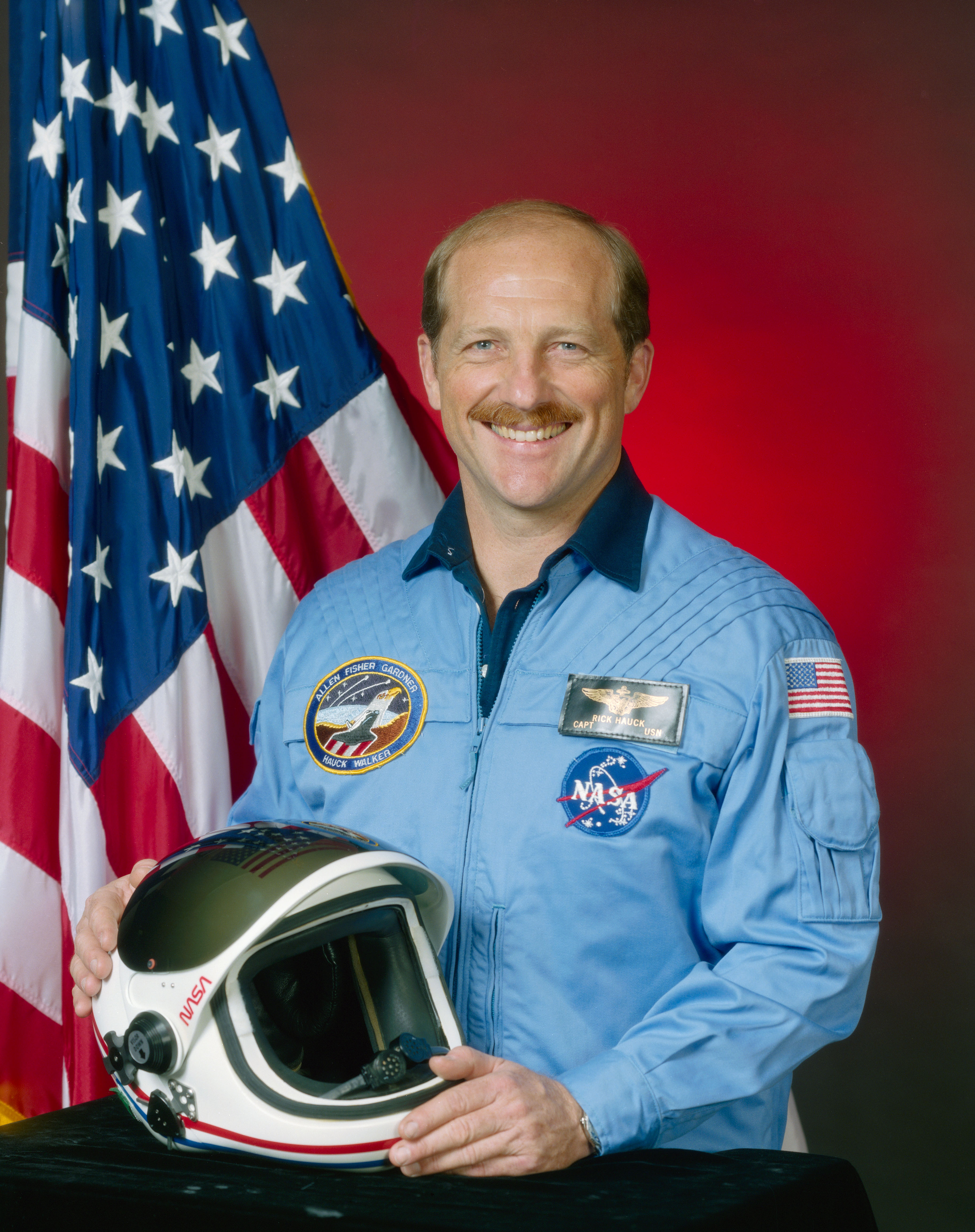 Official portrait of Astronaut Frederick H. "Rick" Hauck, taken after he was assigned as mission commander of the first flight after Challenger.